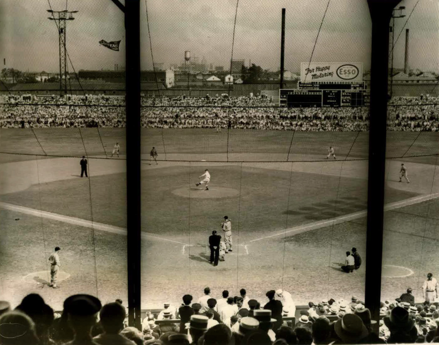 Pelican Stadium New Orleans, 1934, seen from stands behind home plate.